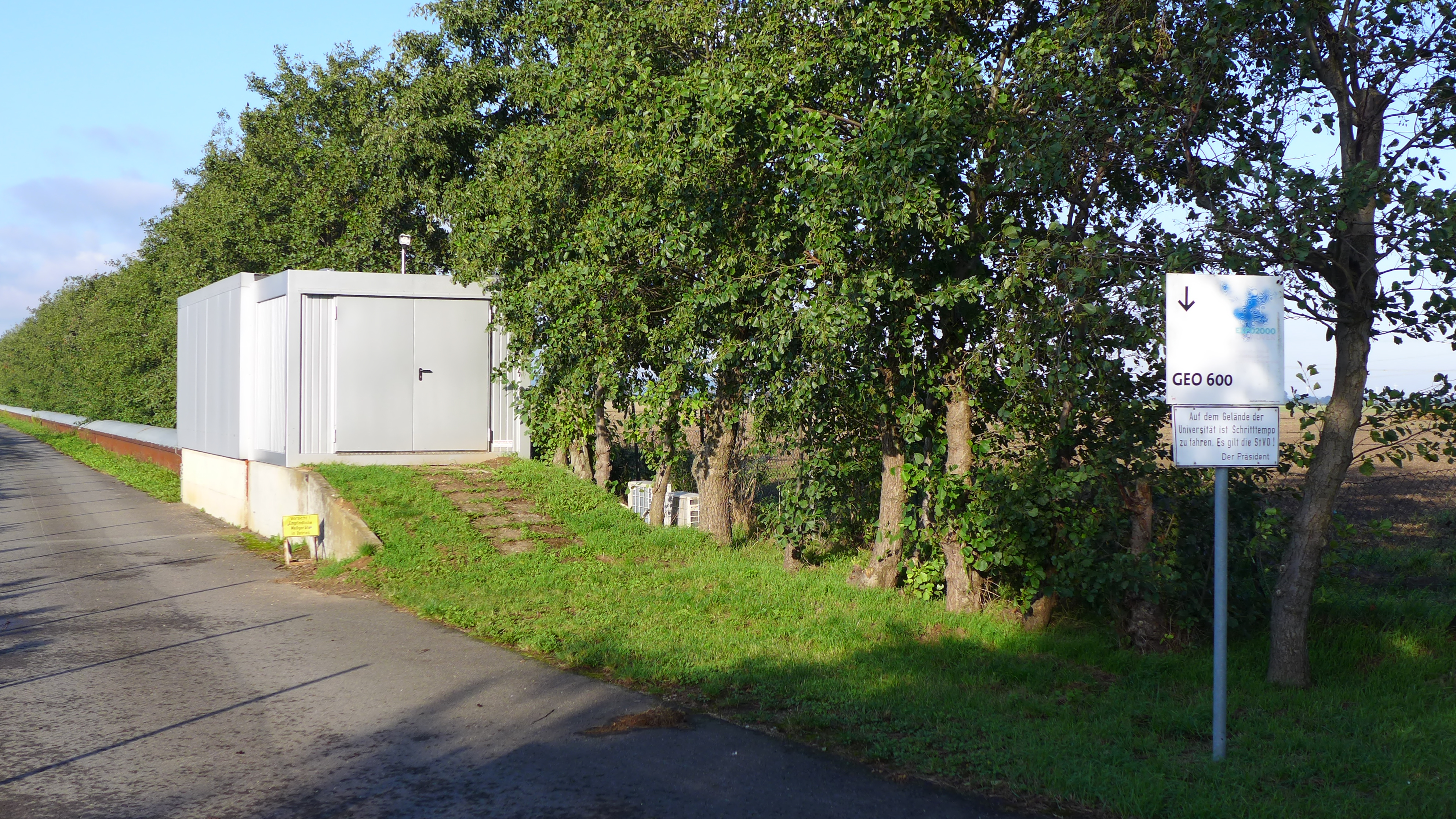 GEO600 - eastern arm